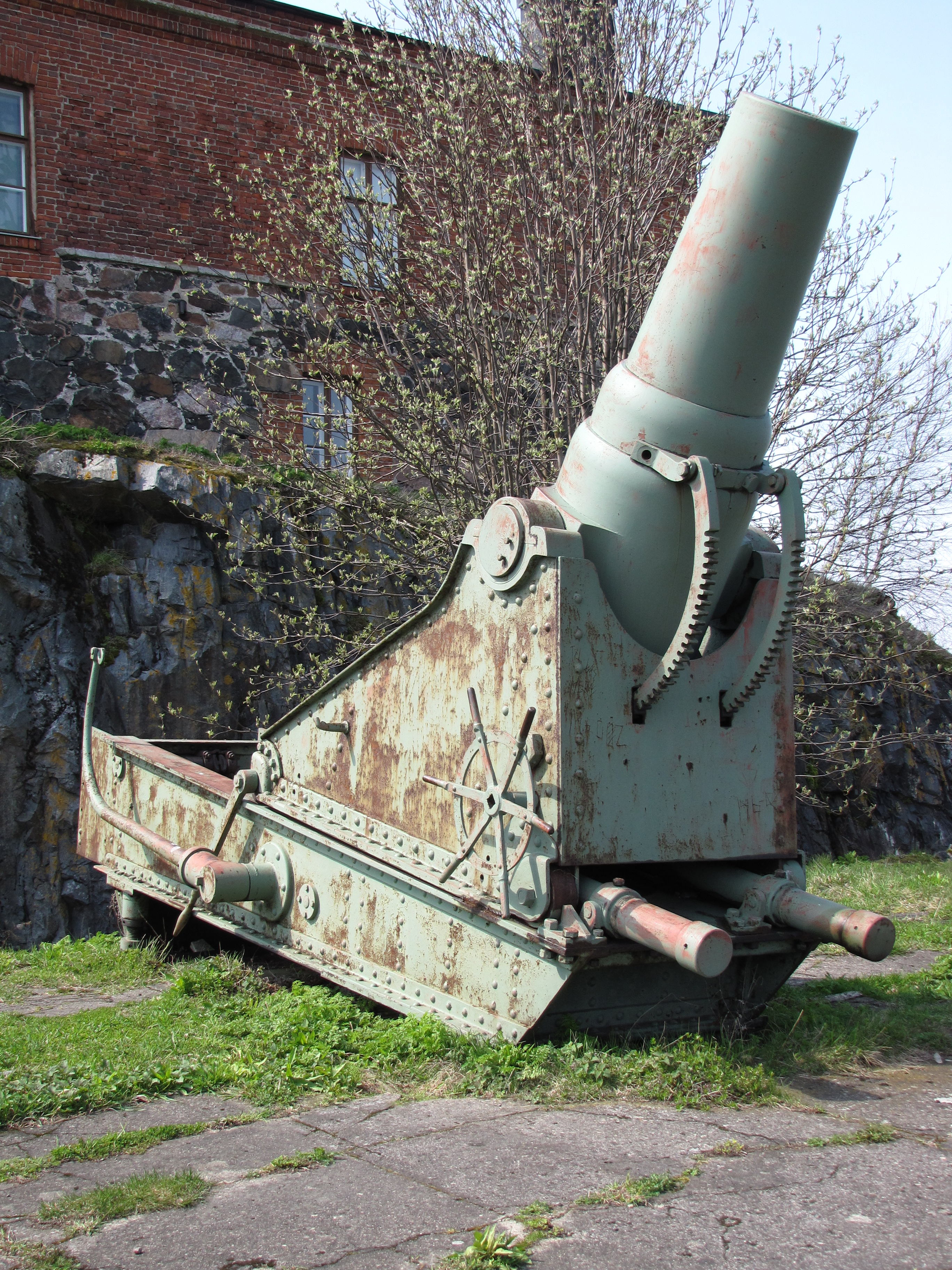 Imperial Russian 9 inch model 1877 coastal mortar in Suomenlinna. Finnish designation 229 RM 77.